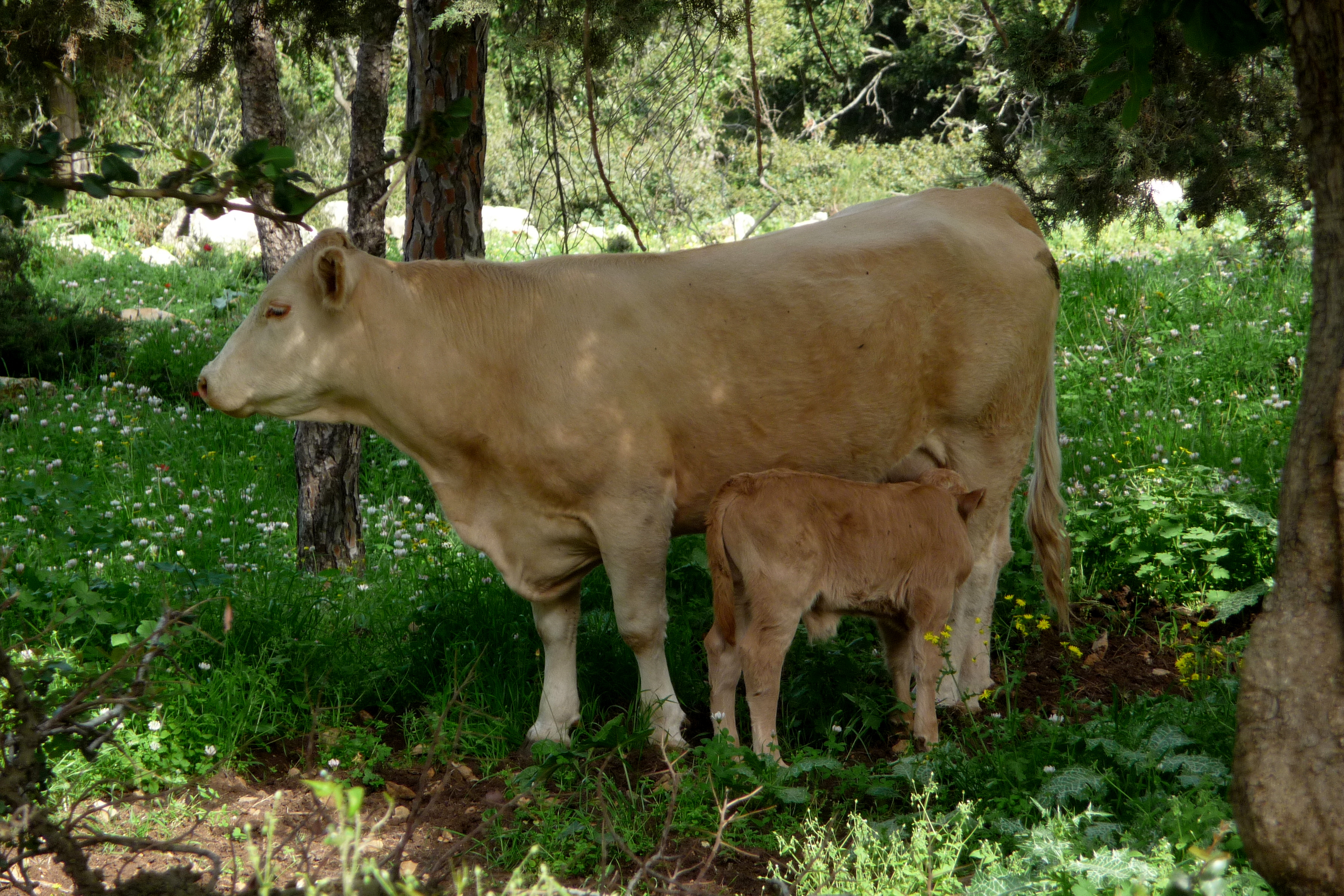 Carmel Park